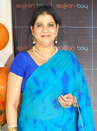 Asha Sachdev at the Launch of Saffron Bay restaurant